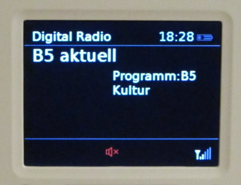 Dynamic Label Plus (DL+) information of a radio station via DAB regarding the current programme.